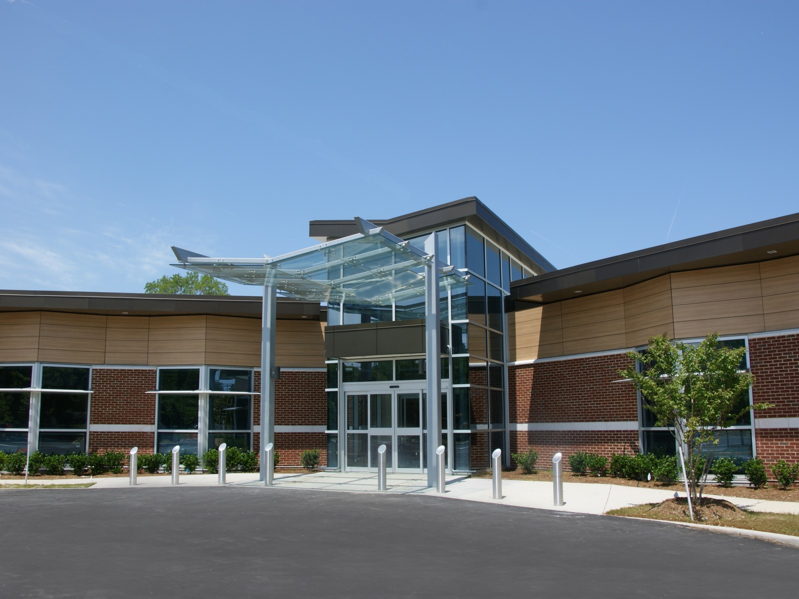 Photograph of the Beechwood Wing entrance to Lake Taylor Transitional Care Hospital